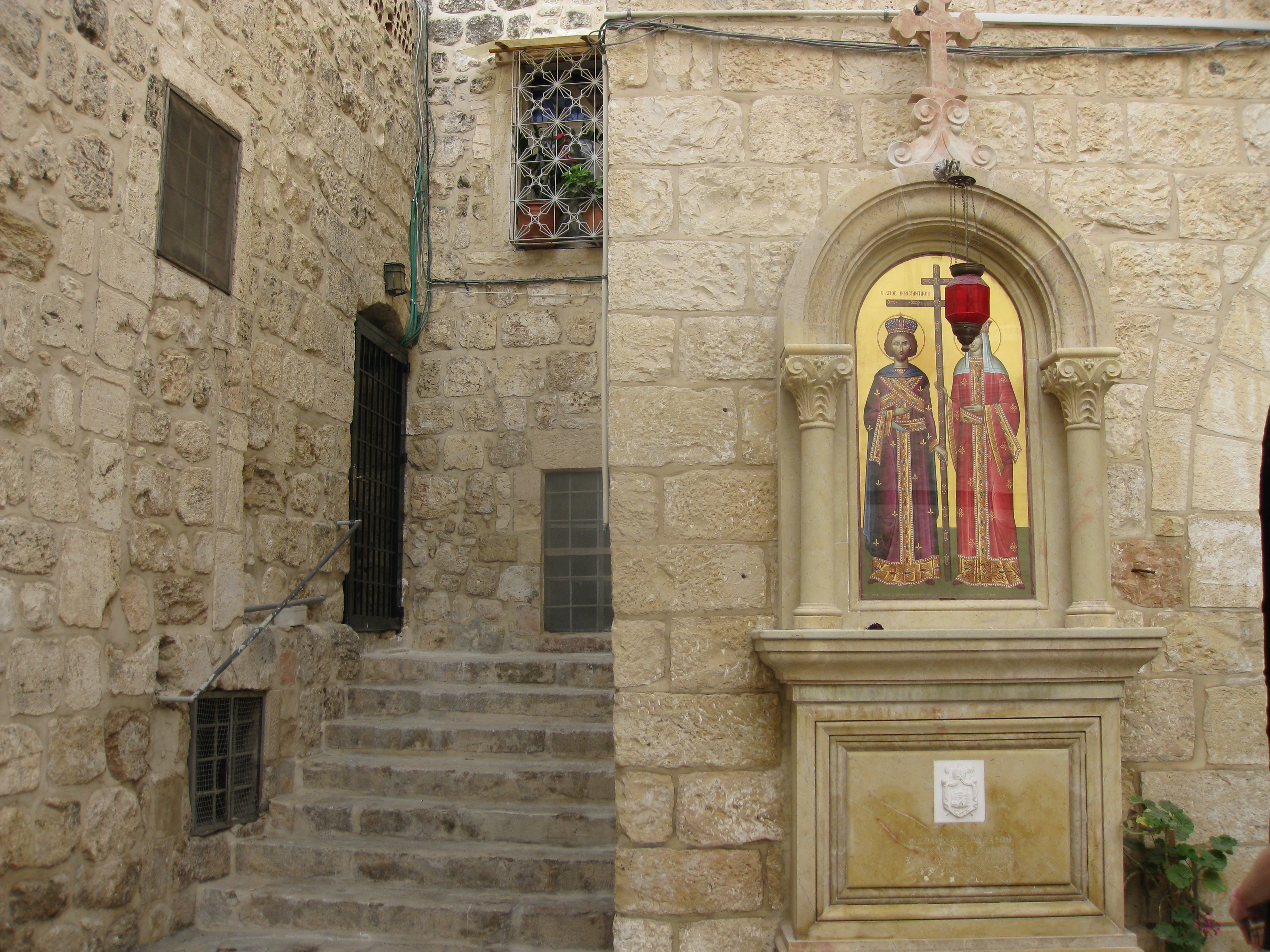 In the Greek Orthodox Patriarchate